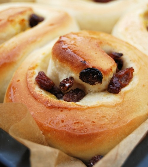 Chelsea buns